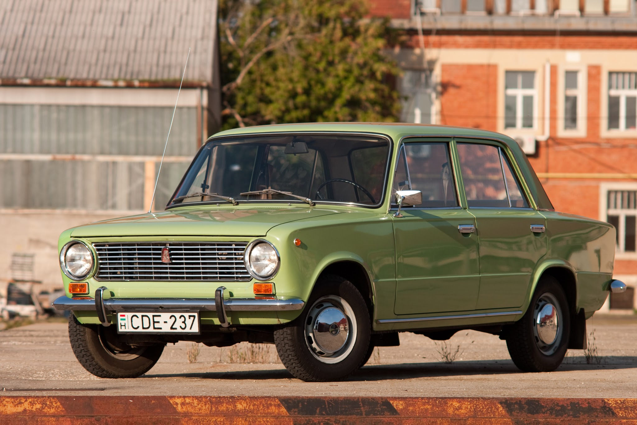 1980 - VAZ 2101(Lada 1200)